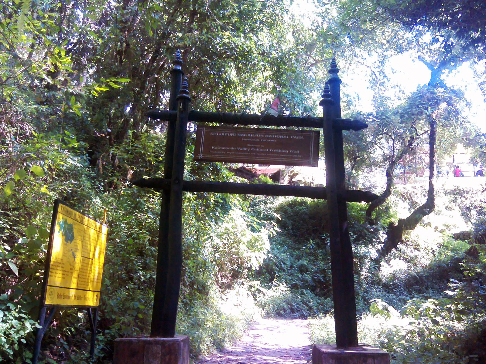 Shivapuri Nagarjun National Park Entry Gate